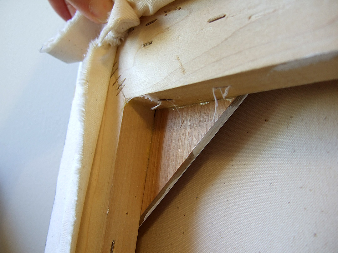 Backside view of the corner construction of a strainer bar for stretching canvas.